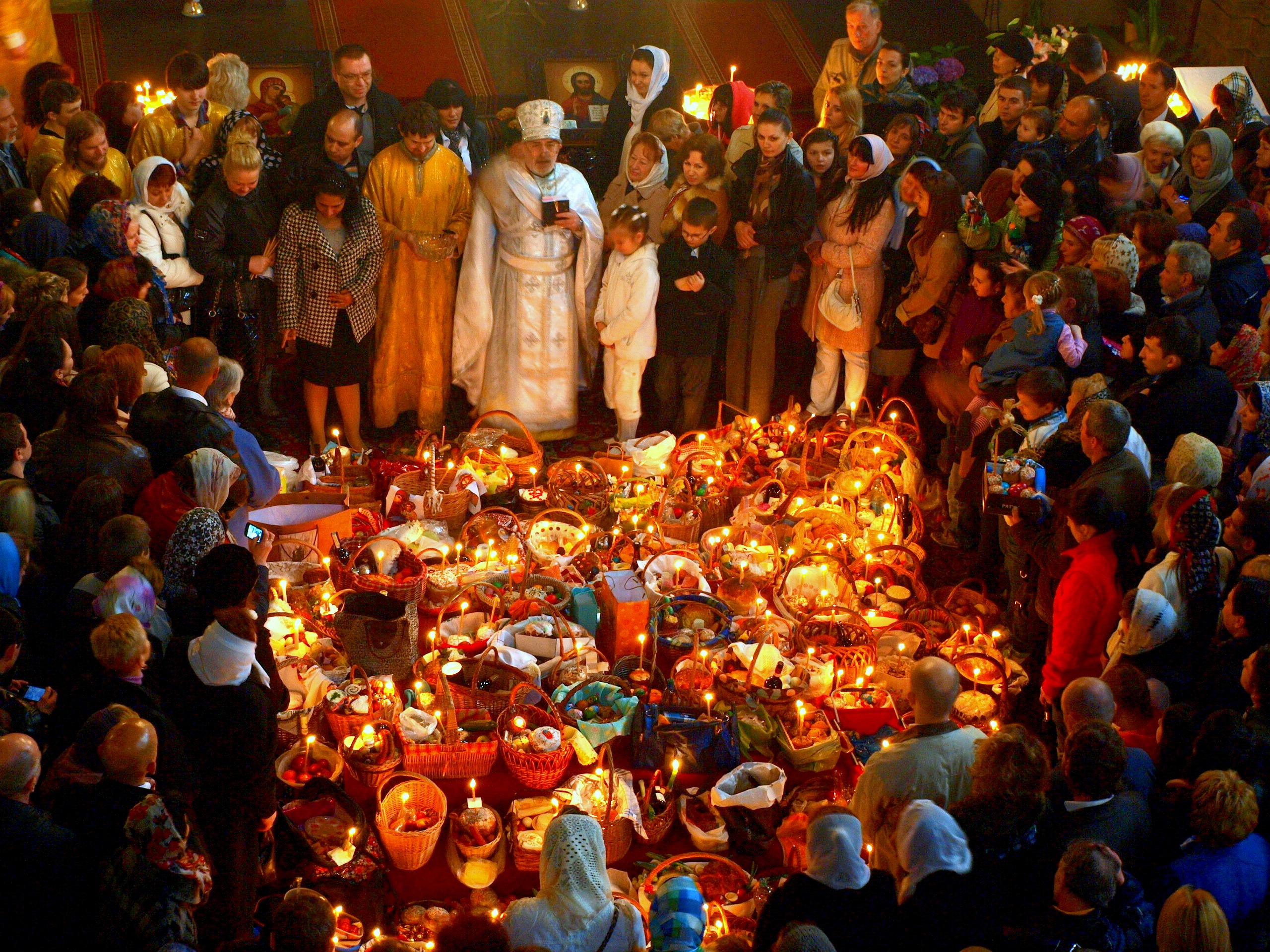 Blessing the food at Orthodox Church of ss. Cyril and Method in Prague